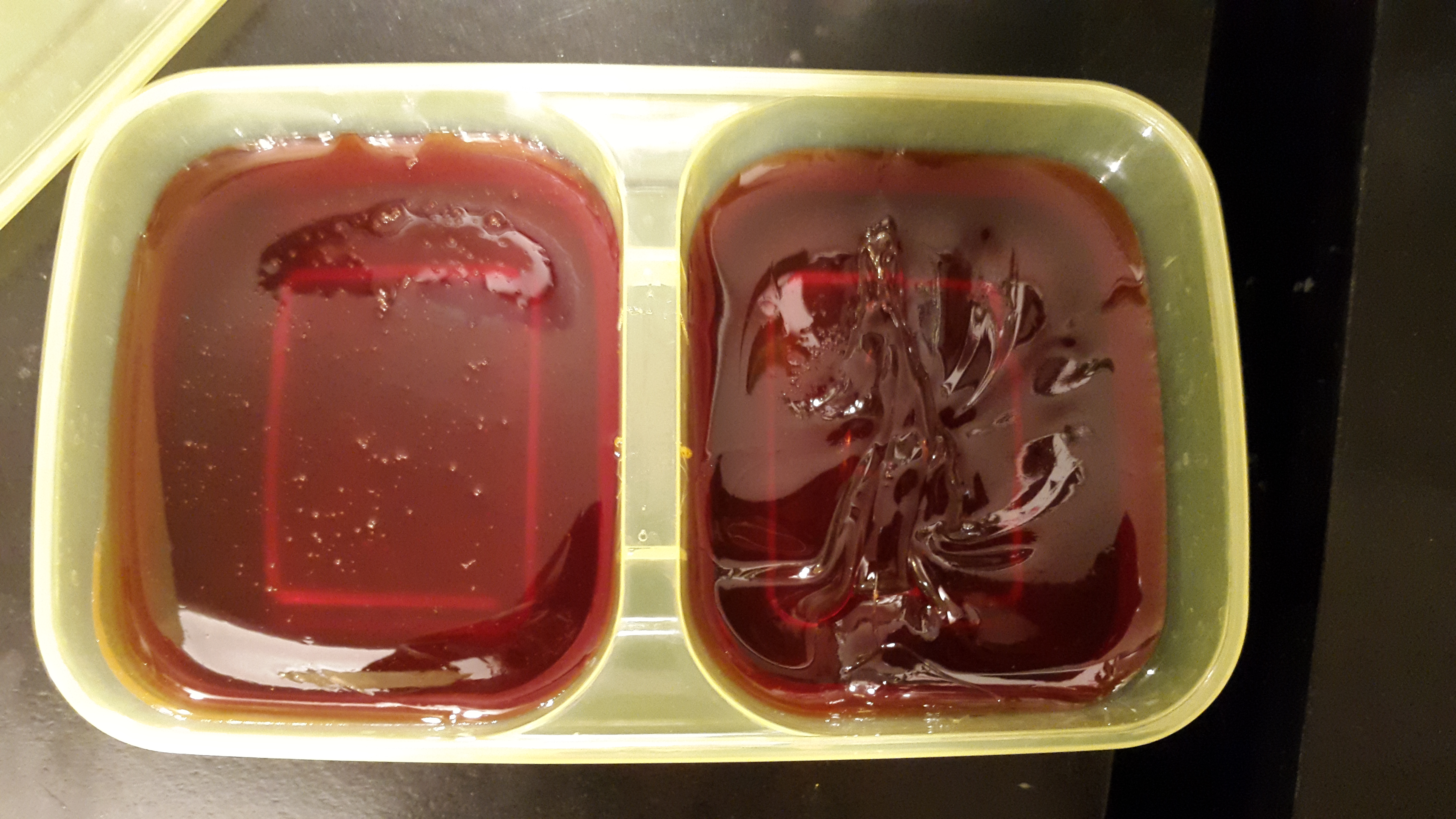 Depilatory sugar